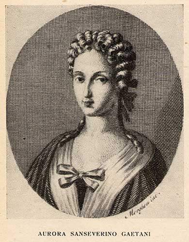 Portrait of Aurora Sanseverino taken from Maria Bandini Buti, Enciclopedia biografica e bibliografica italiana: poetesse e scrittrici (Roma, 1942), vol. 2, p. 211. Location of original unknown.